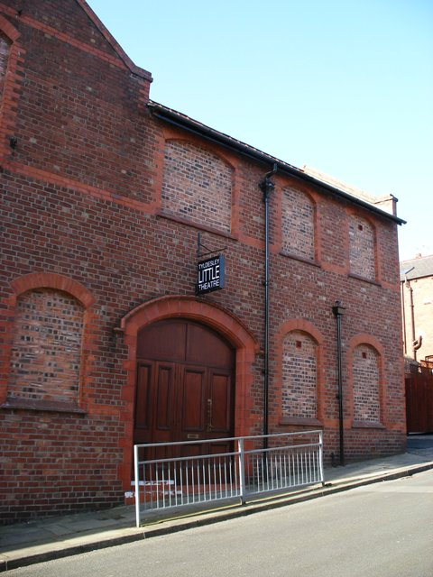 Tyldesley Little Theatre, near to Tyldesley, Wigan, Great Britain. Home to Tyldesley Amateur Dramatic Society, producing plays for over 80 years. It is situated on Lemon St.